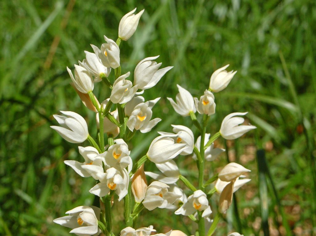 Cephalanthera longifolia - Piani di Praglia, Genova, Italy